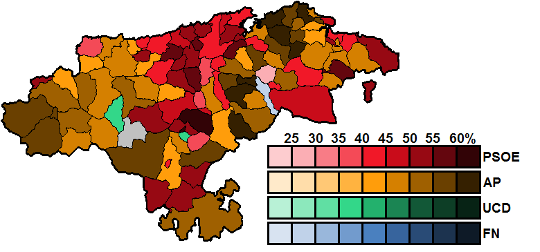 Most-voted party in Cantabria municipalities, showing vote share obtained, in the Spanish general election, 1982.